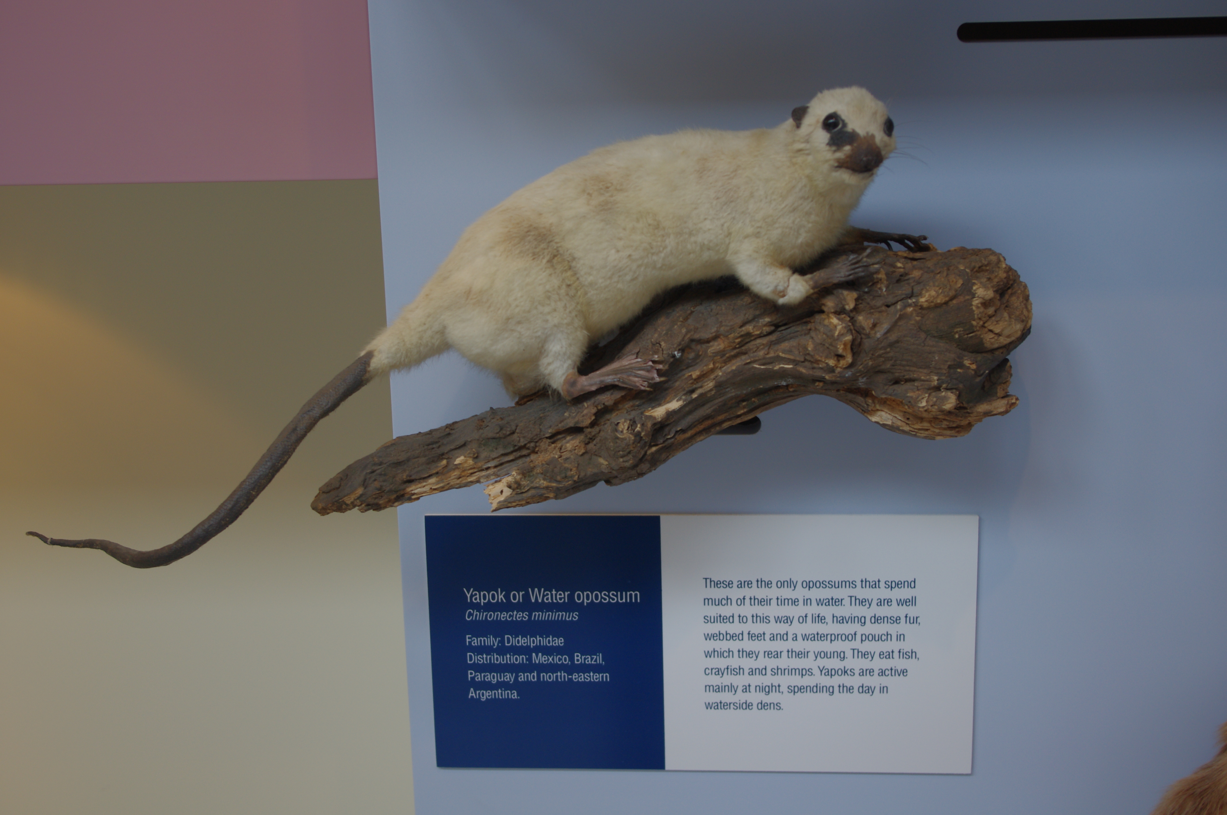 Water opossum (Chironectes minimus (Zimmermann, 1780)) - Natural History Museum, London